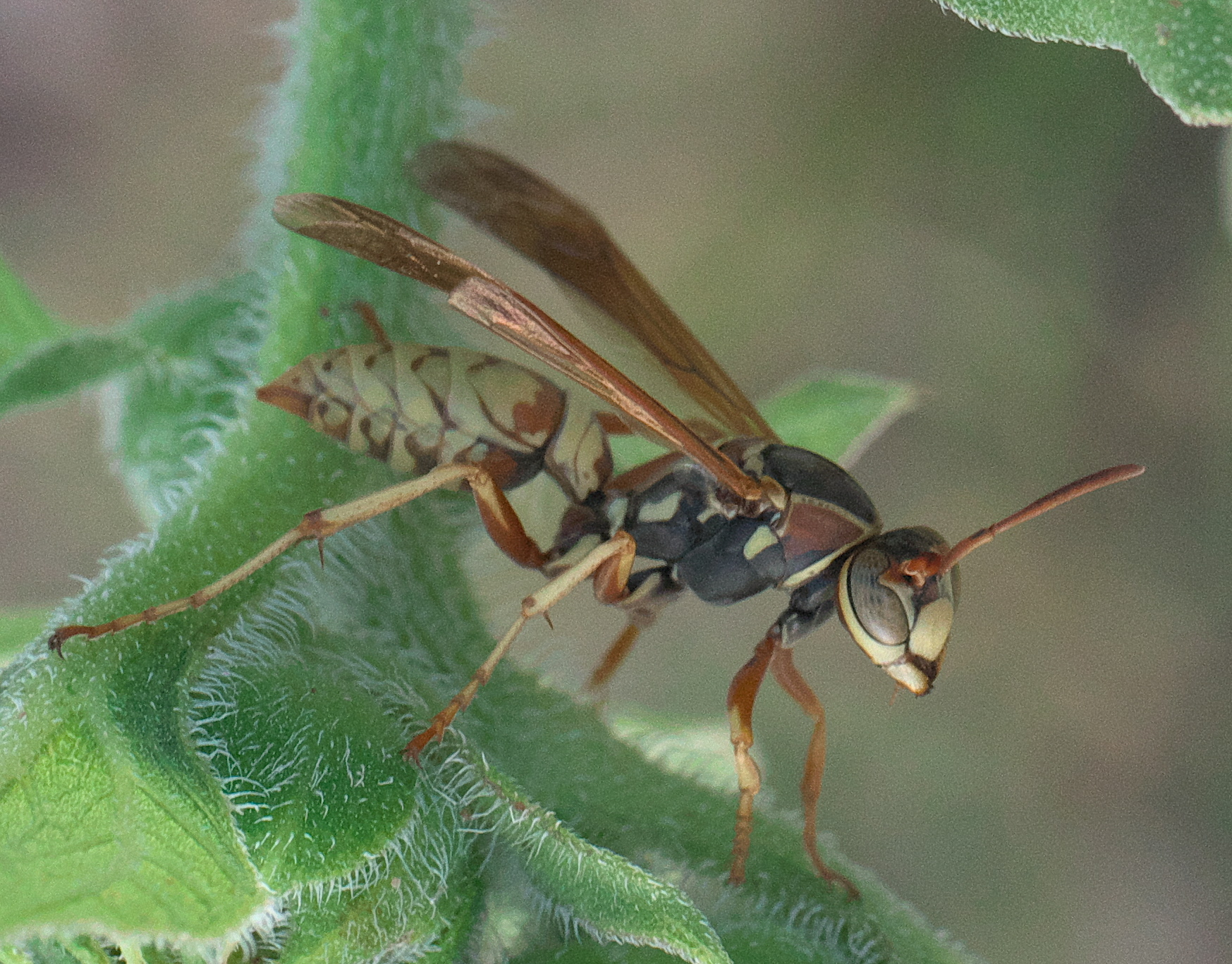 Polistes aurifer, Genus: Paper Wasps, ID Confidence: 88